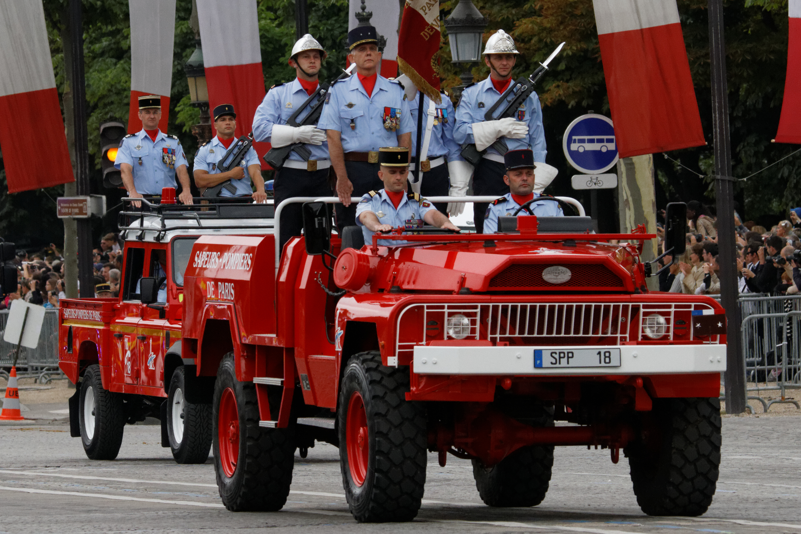 Bastille Day 2014 military parade on the Champs-Élysées in Paris. Motorised troops.